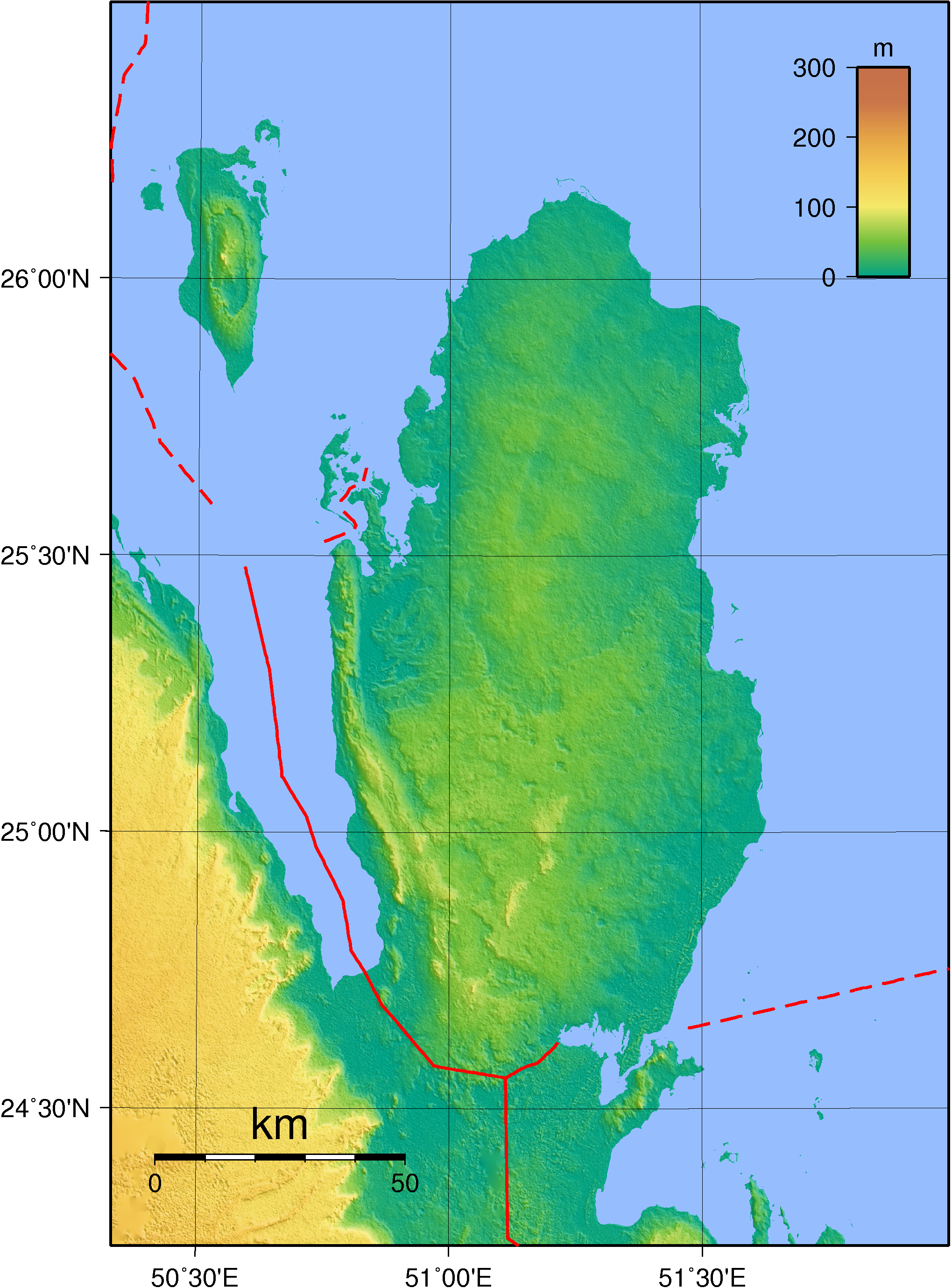 Topographic map of Qatar. Created with GMT from SRTM data.